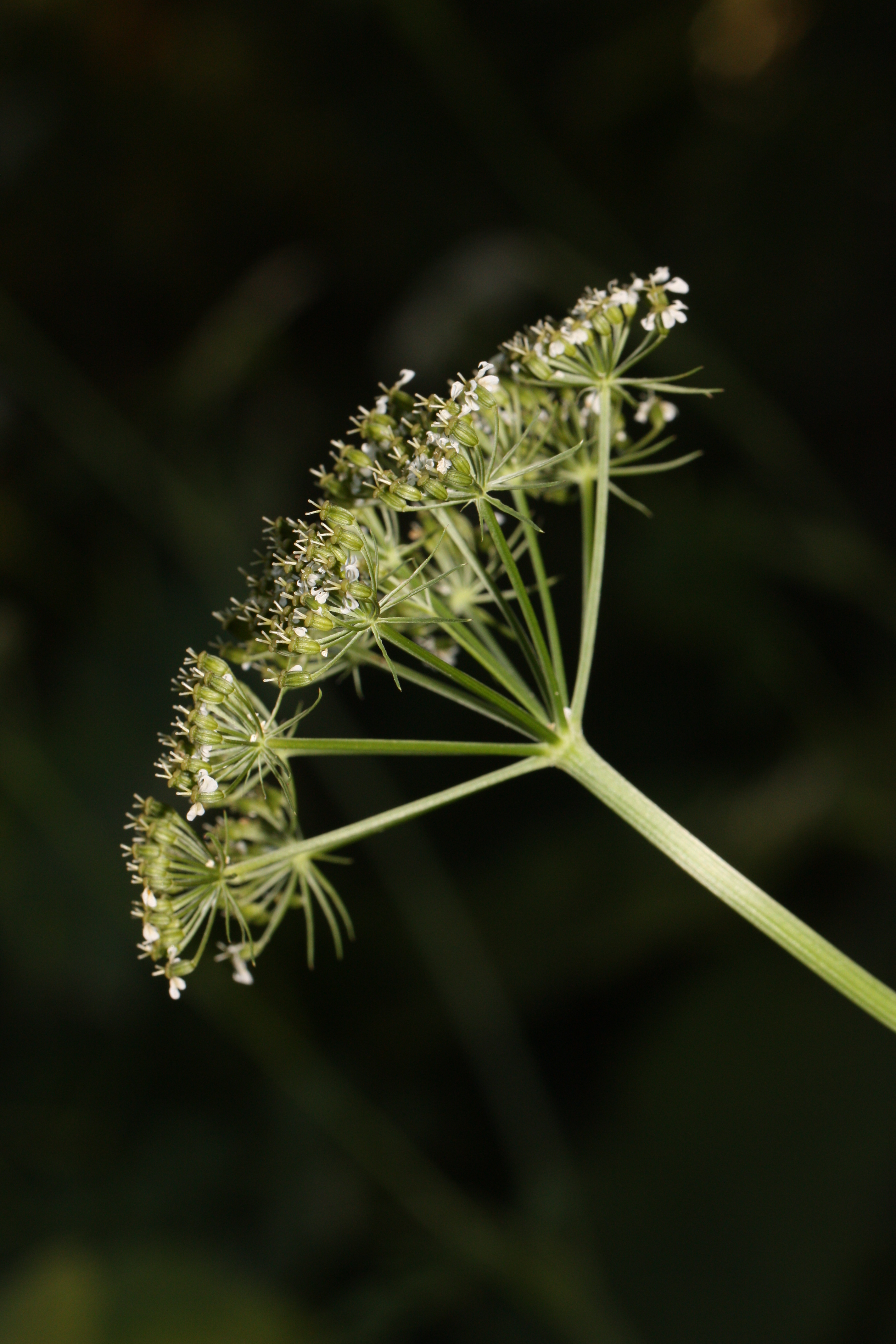 Pacific Hemlock-parsley